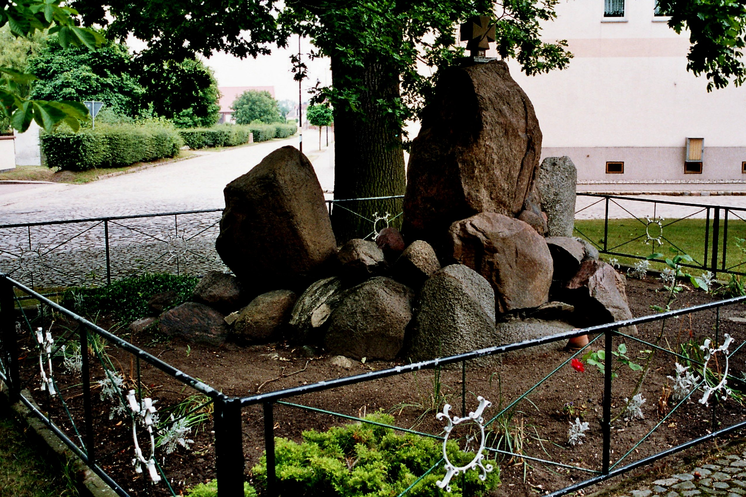 Lödderitz (Barby), war memorial This is a photograph of an architectural monument. 50531